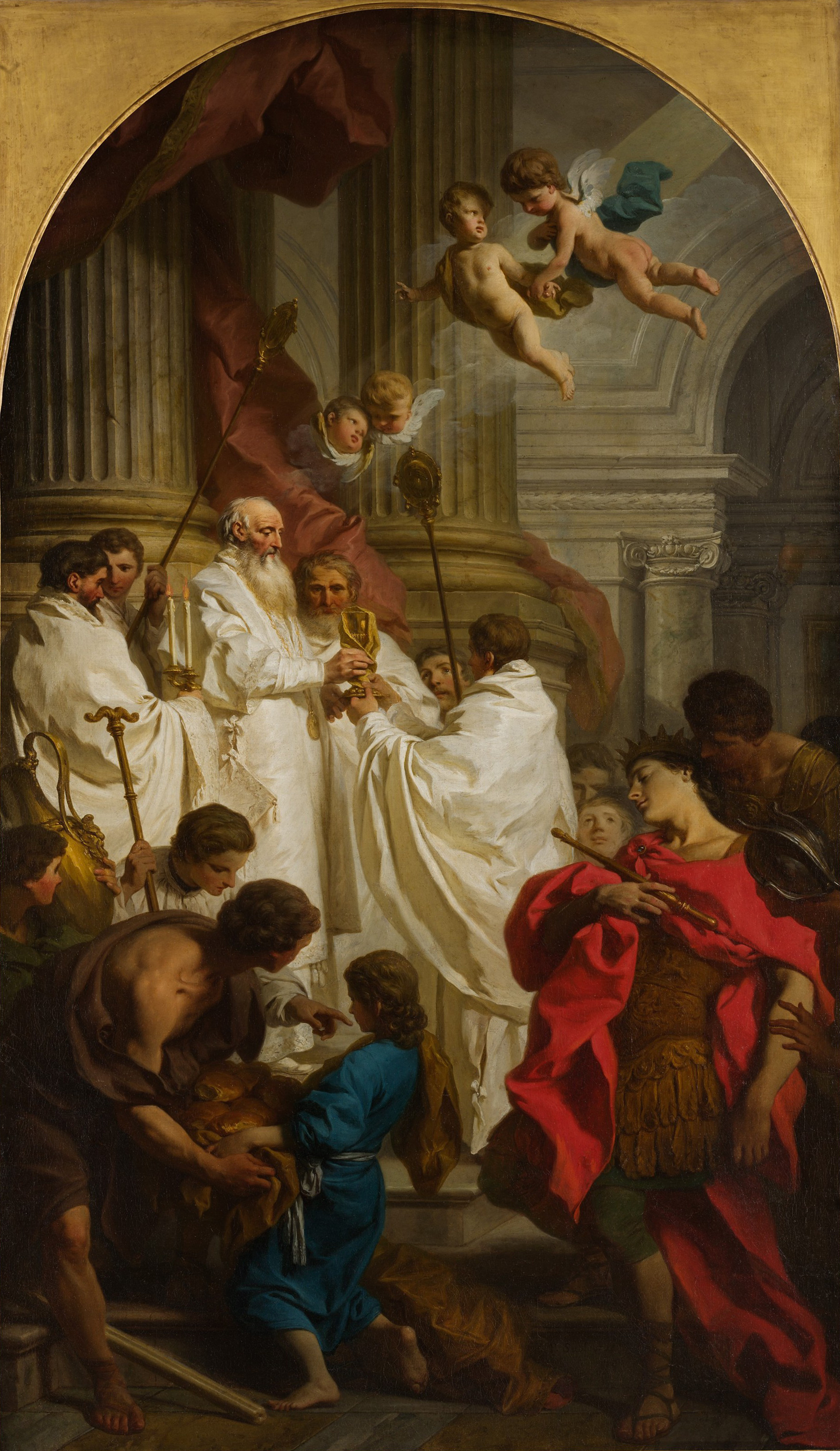 Painting depicting the Mass of Saint Basil